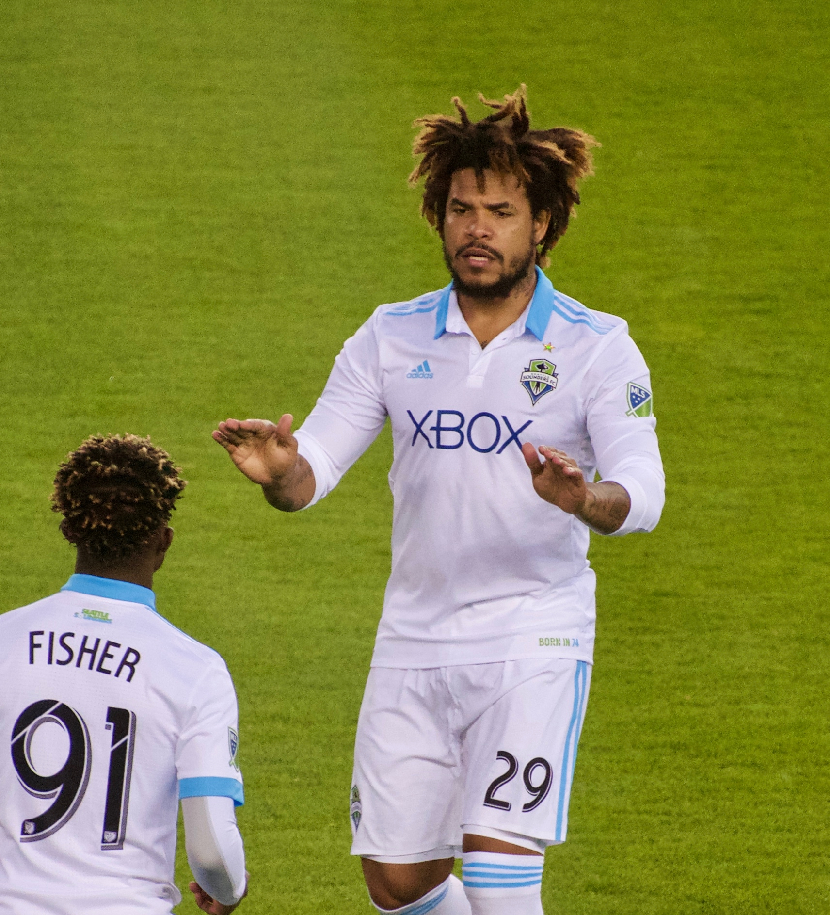 Román Torres playing for Seattle Sounders at Avaya Stadium on 8 April 2017.